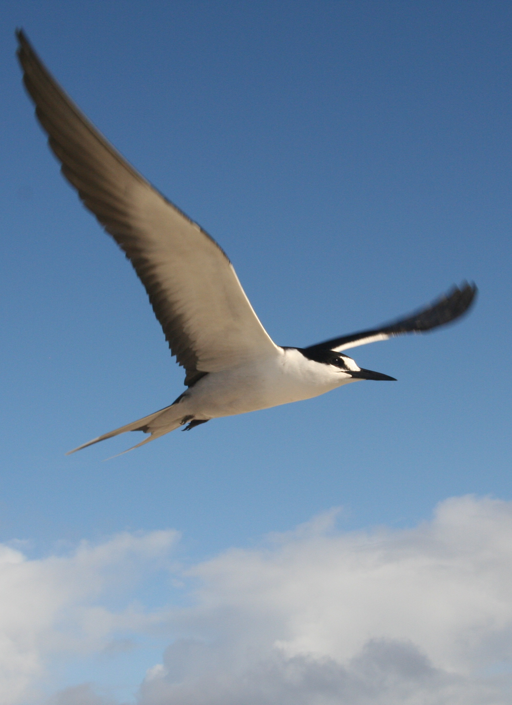 Sooty Tern Onychoprion fuscatus (syn. Sterna fuscata) flying in colony on Tern Island, French Frigate Shoals